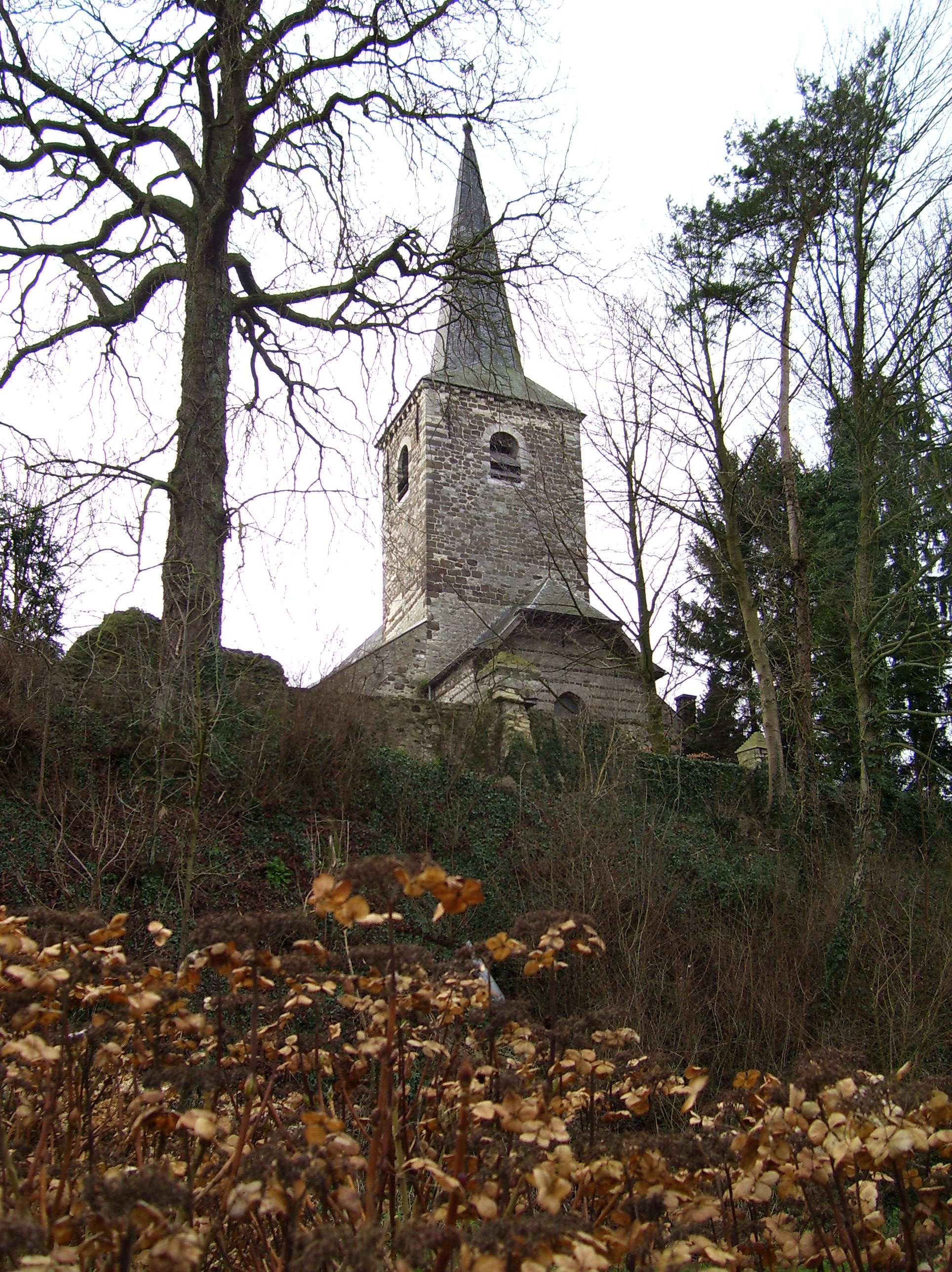 Church in Chaumont, Belgium